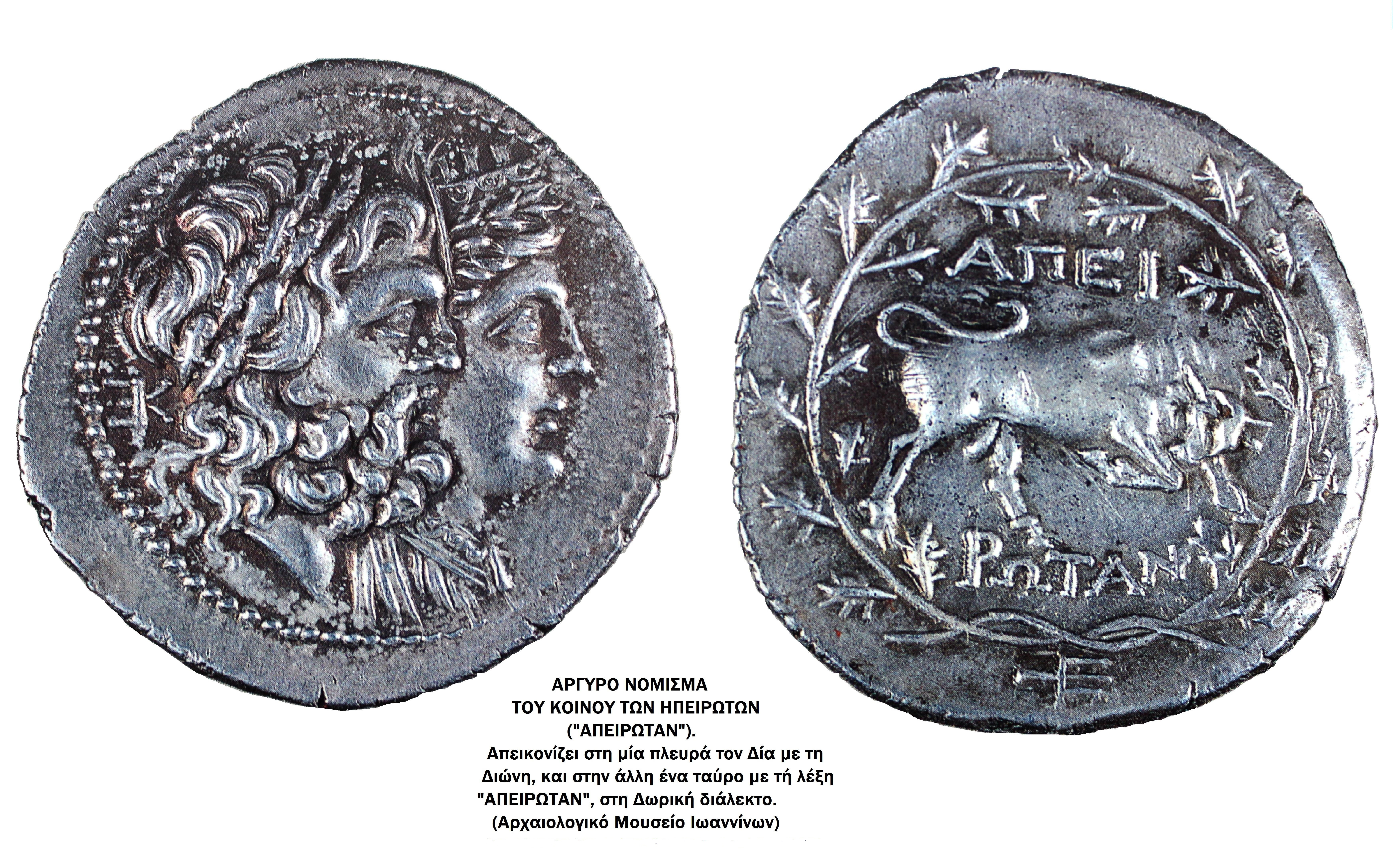 Epirote League coin